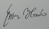 Self-Photographed, Transformed from File:Perface by Hoxha, an official publication of Albania.png